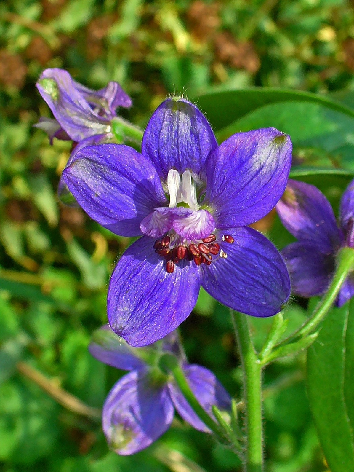 Delphinium staphisagria, Ranunculaceae, Lice-Bane, Stavesacre, flower. The seeds are used in homeopathy as remedy: Staphisagria (Staph.)